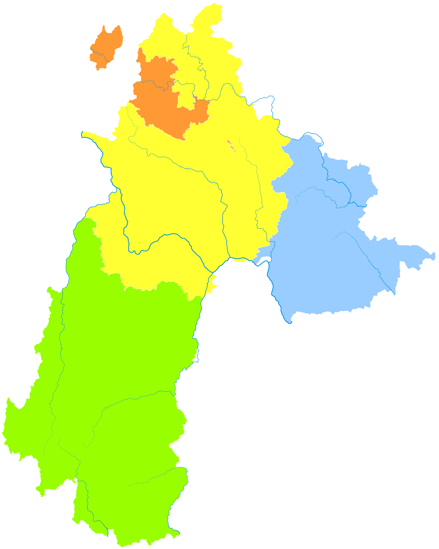 administrative divisions of Liupanshui City, Guizhou, China